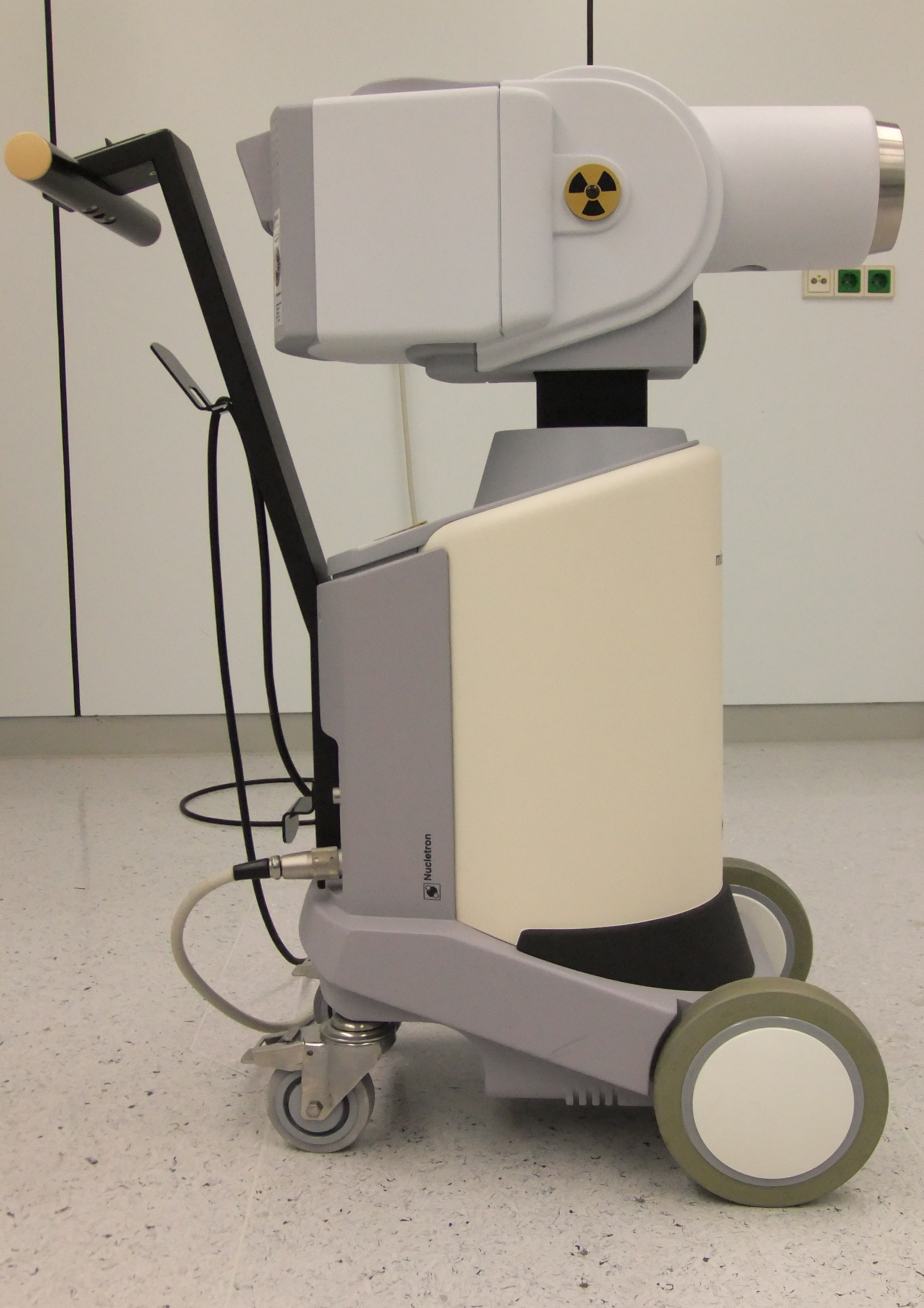 Afterloading device, lateral view, medical therapy unit for brachytherapy